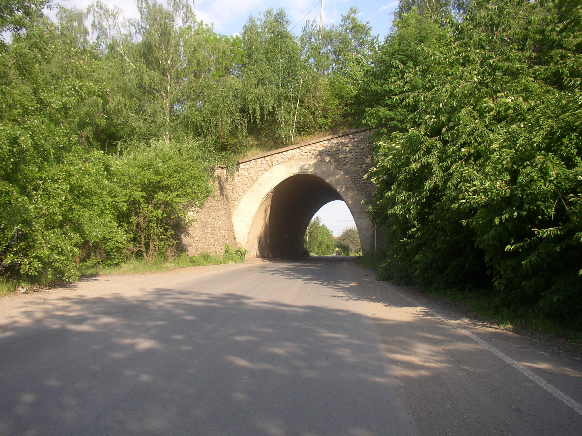 Railway siding to Buštěhrad slag heap passing above road from Vrapice to Buštěhrad, Kladno District, Central Bohemian Region, Czech Republic. View from NW, towards Buštěhrad.